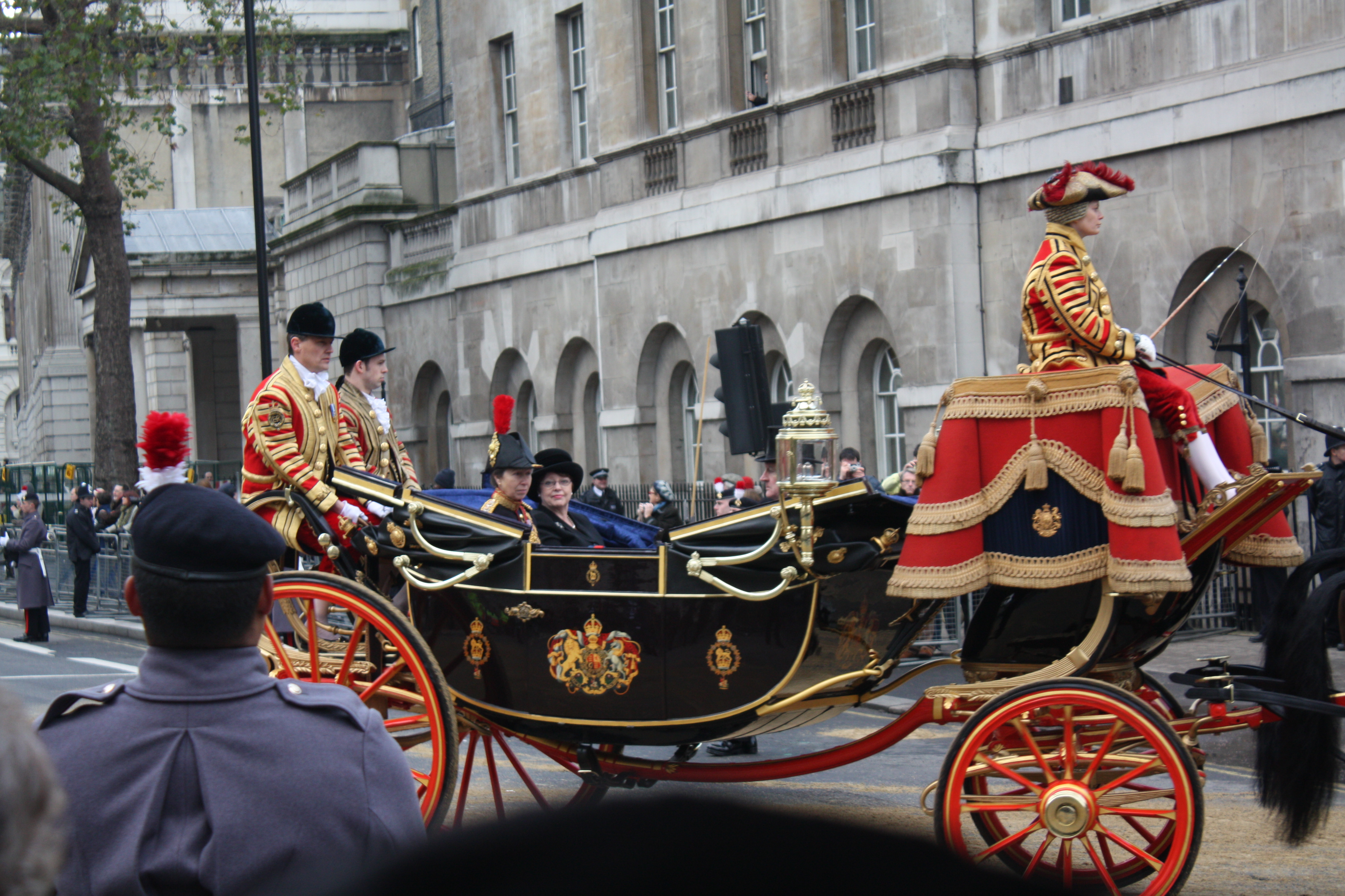 HRH The Princess Royal in the Procession along Whitehall from the Houses of Parliament back to Buckingham Palace, 3rd December 2008